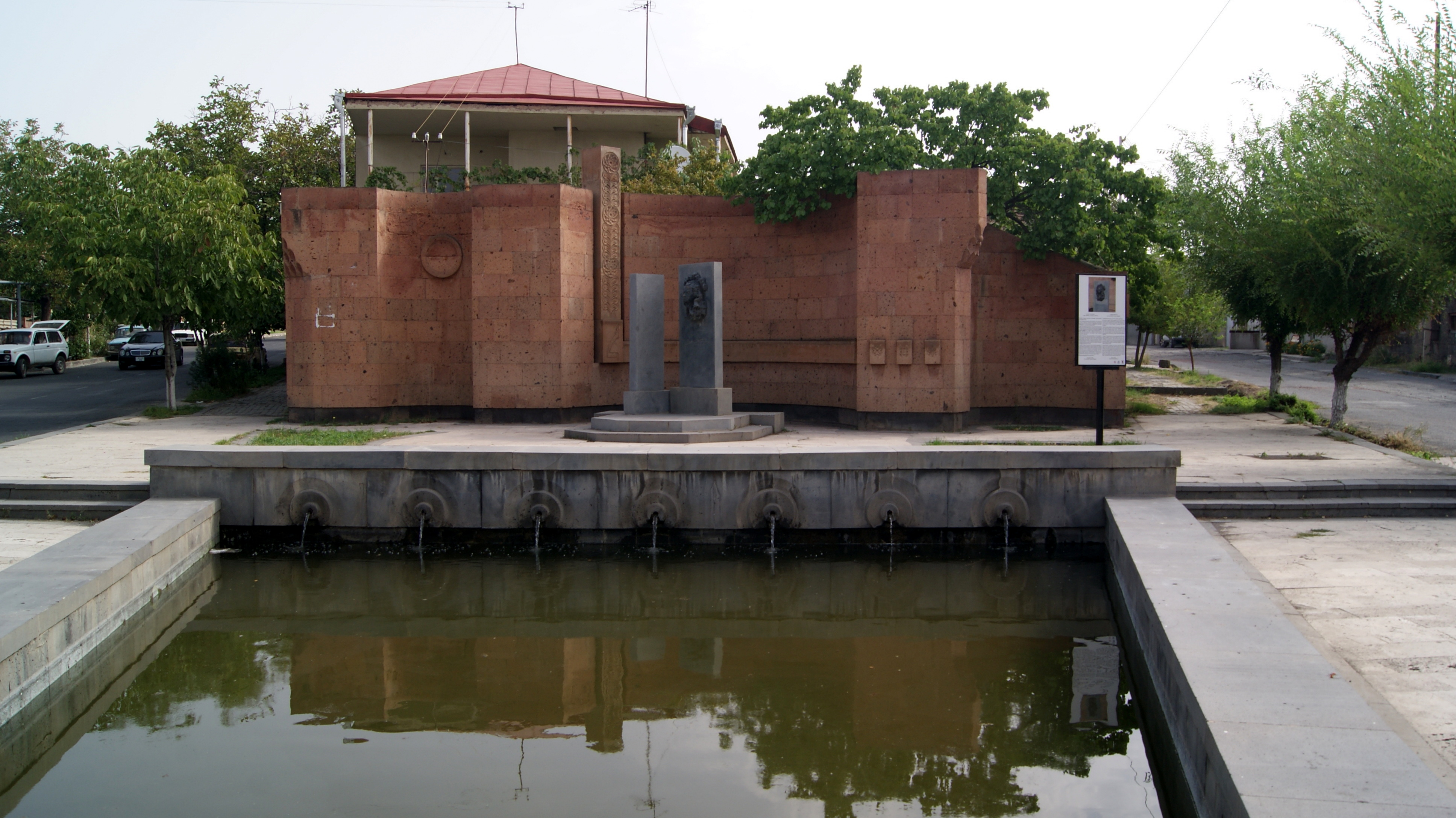 Վարդգես Պետրոսյանի դիմաքանդակ, Աշտարակ